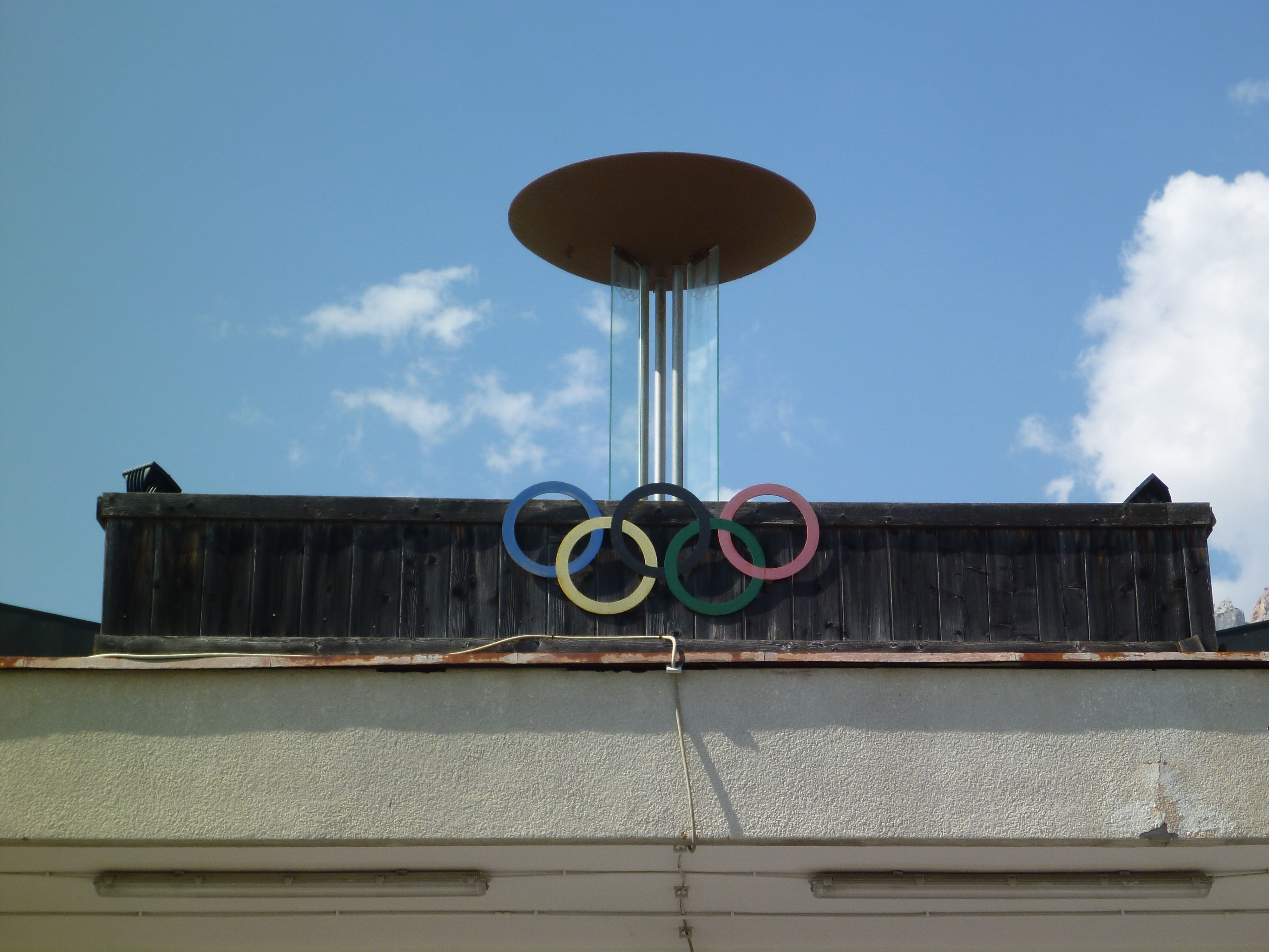 Winter Olympics torche from the 1956 games on the Stadio Olympica, Stadio Olimpico del Ghiaccio (Italian: Olympic Ice Stadium) in Cortina d'Ampezzo.